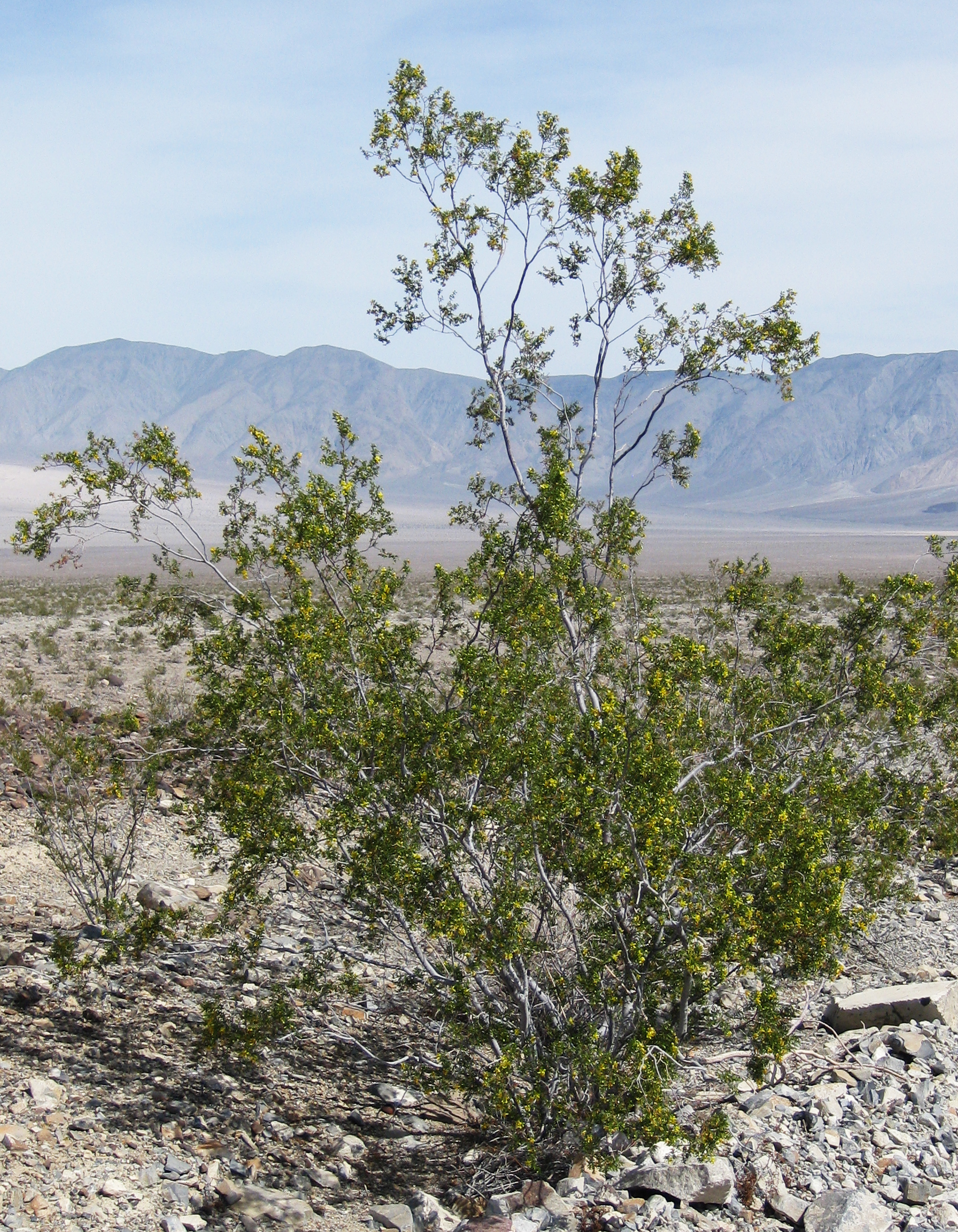 Creosote-bush (Larrea tridentata) bush, flowering in the 2016 Death Valley superbloom. Altitude 1,960 ft (600 m) along Rt 190 above Panamint Springs.